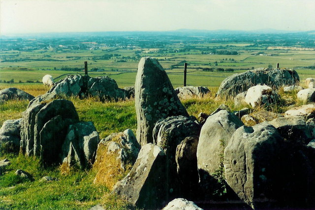 Cairn S, Slieve na Calliagh, Co. Meath The denuded passage tomb, Cairn S, with stones of the passage in foreground and kerb in background. One of the five decorated stones is visible at bottom right.